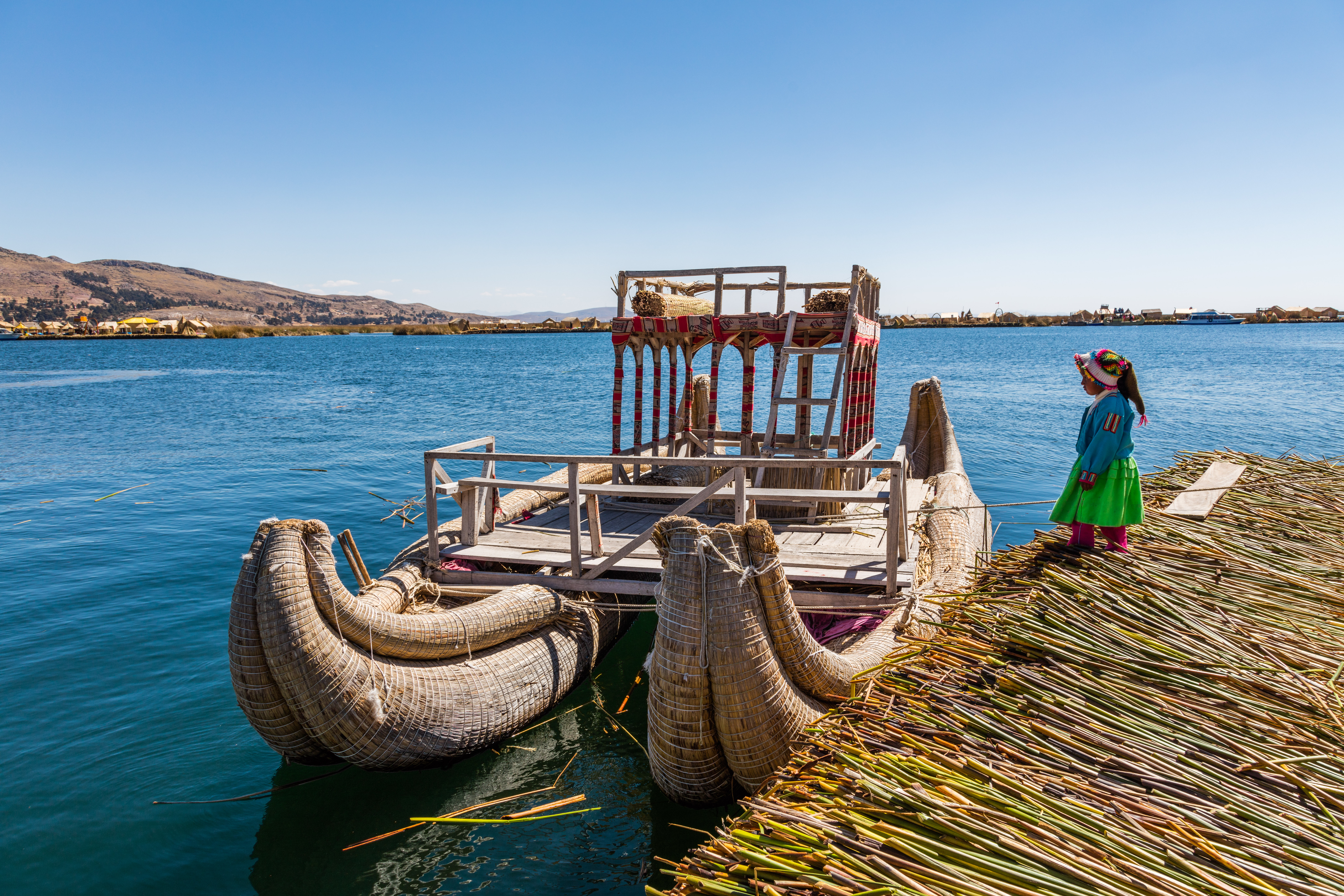 Uros floating islands, Titicaca Lake, Peru